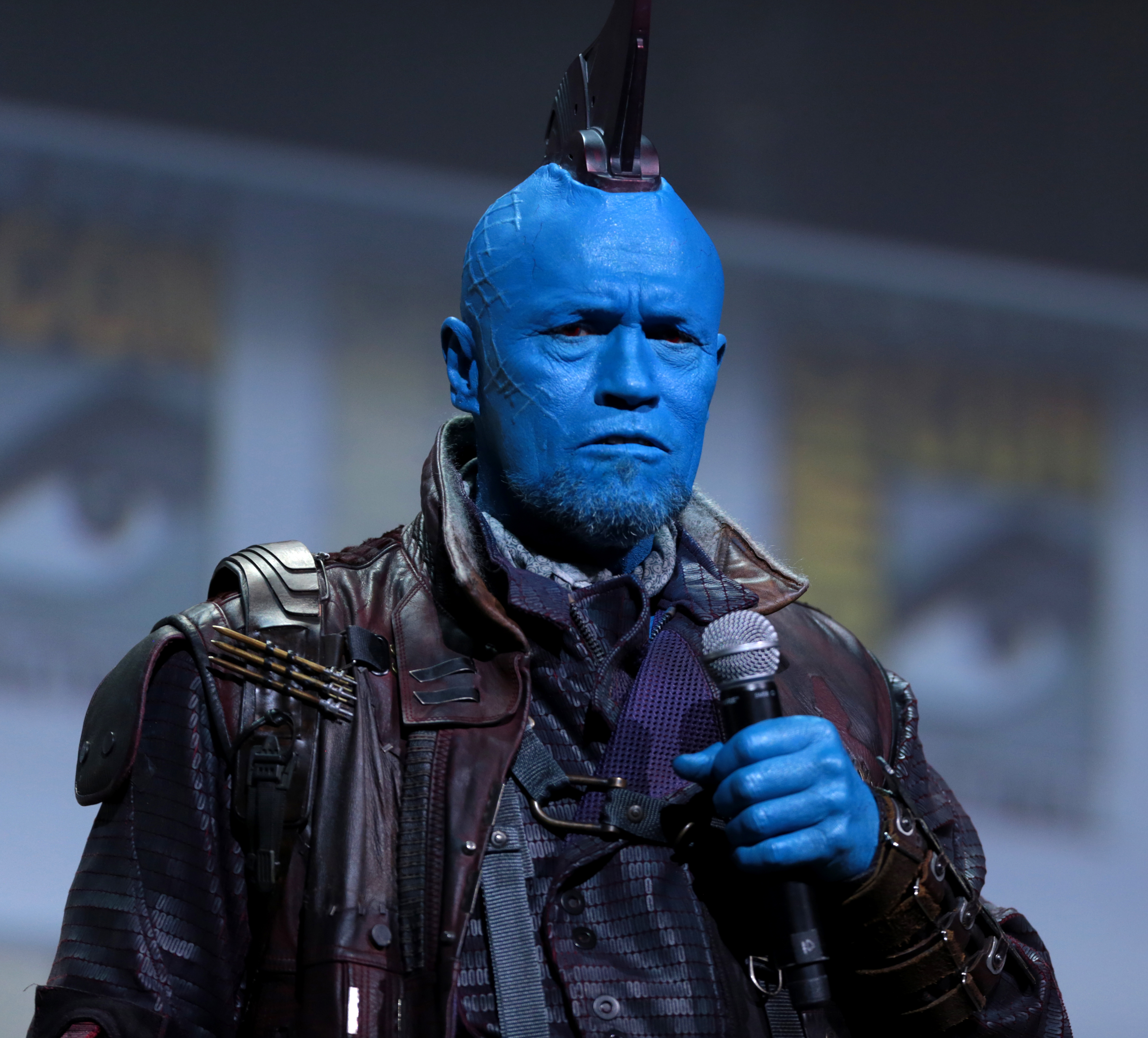 Michael Rooker speaking at the 2016 San Diego Comic-Con International in San Diego, California.